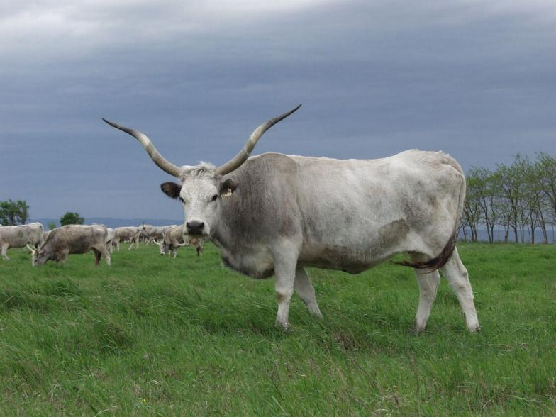 Hungarian Grey cattle, Mekszikópuszta, Hungary